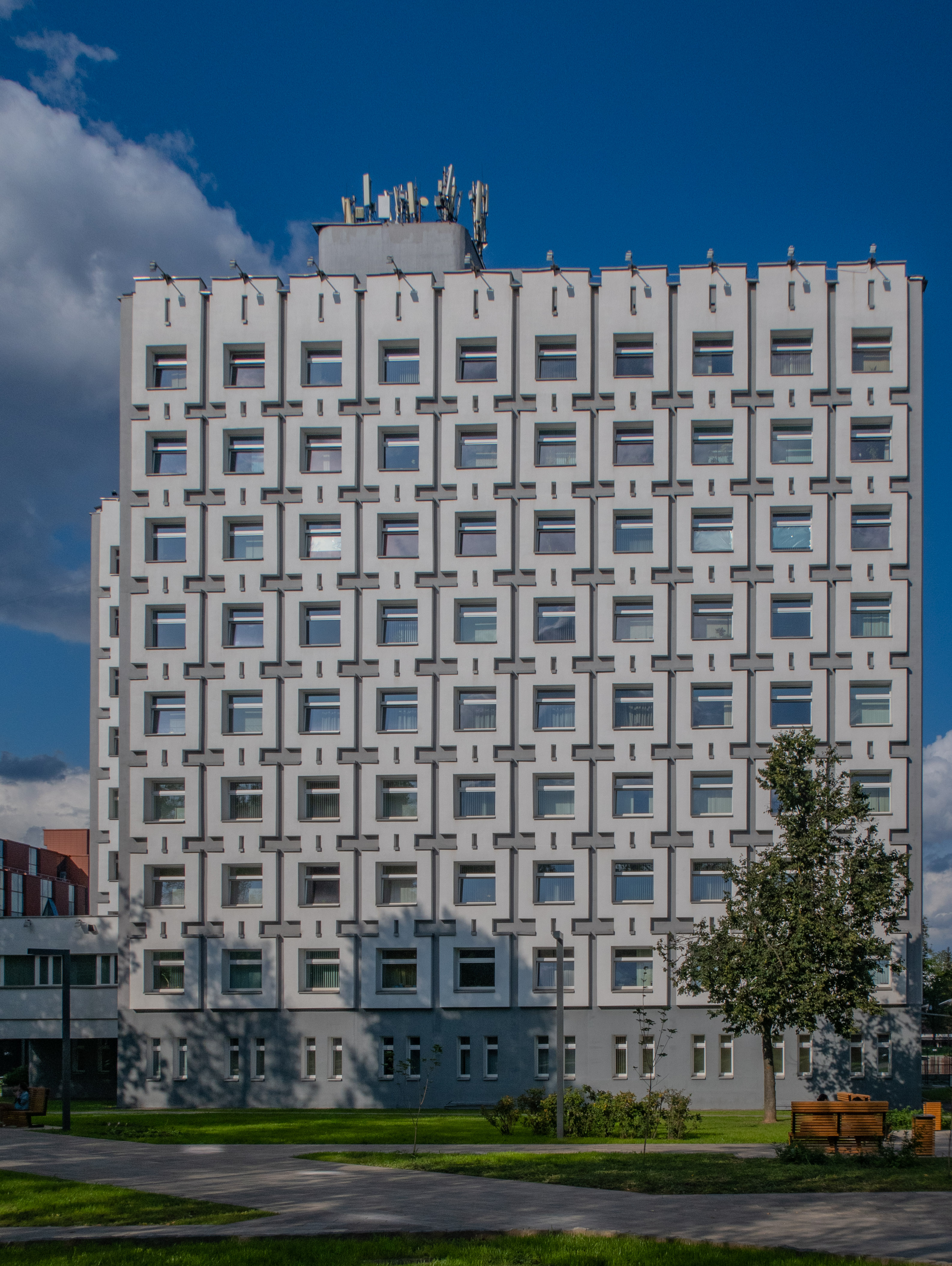 Ministry of antimonopoly regulation and trade of Belarus. Minsk, Belarus